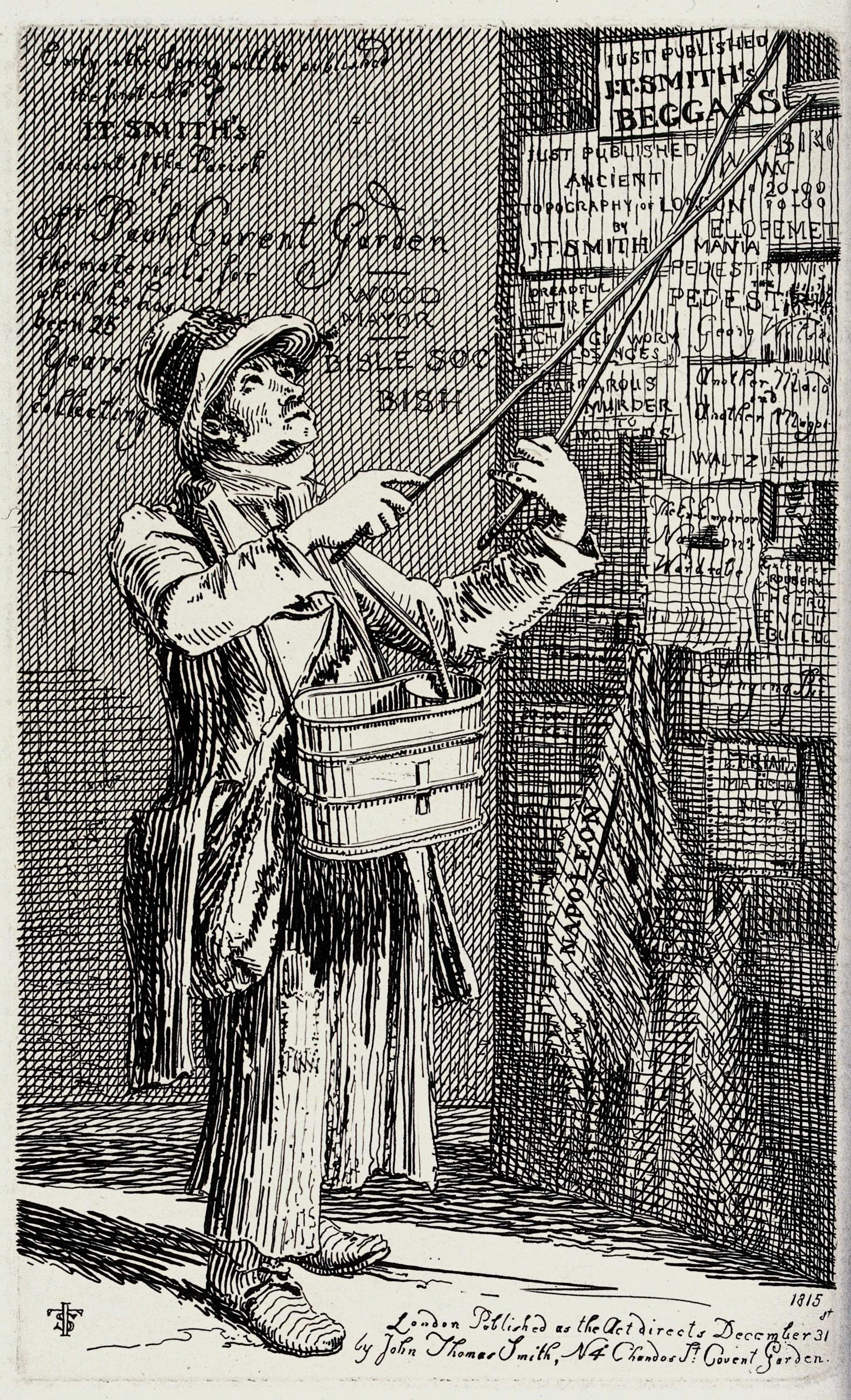 A man sticking placards on a wall that is already littered with public notices. Etching by J.T. Smith, 1815. Iconographic Collections Keywords: John Thomas Smith